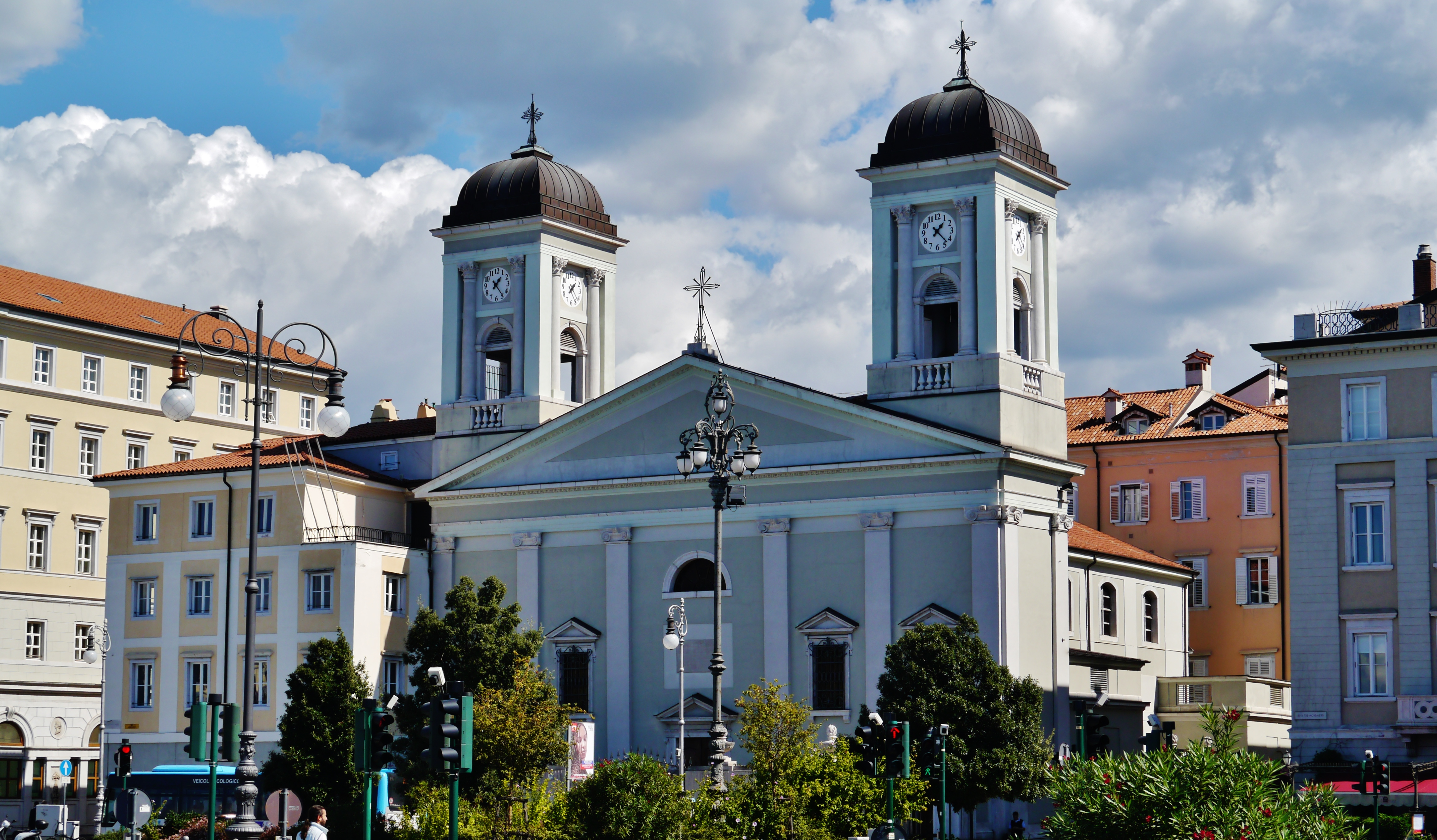 Facade of the Greek Orthodox Church San Nicolò dei Greci, Trieste, Friuli-Venezia Giulia, Italy